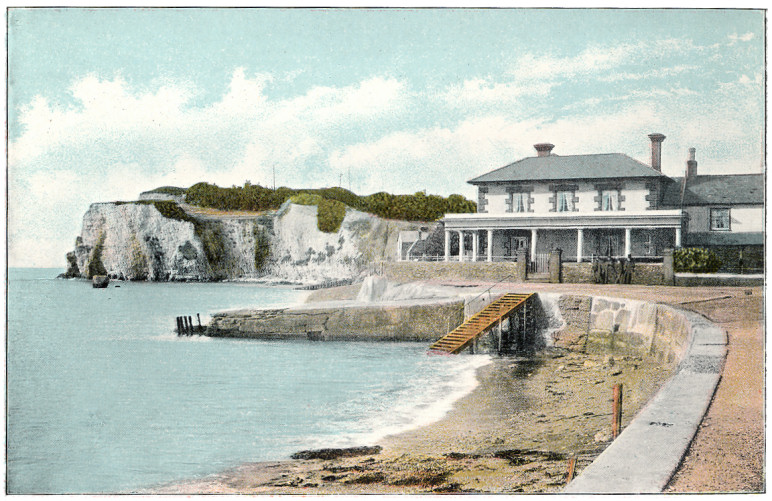 FRESHWATER BAY.—To those who desire to escape from the noise and traffic of the city, Freshwater Bay affords a delightful retreat. During the bright days of summer the sea breaks in gentle murmur on the sand and shingle of the beach, but in winter when lashed by S.W. Gales "it tumbles a billow on chalk and sand." The roar of the ocean can be heard for miles inland. The esplanade shown in the picture has been destroyed by the breakers. Temporary repairs have been effected, but a fierce controversy is still raging as to the ultimate solution of the question, how to prevent further encroachment, and the L.G.B. has been appealed to for help